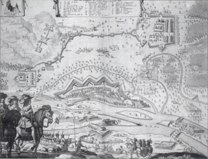 Siege of Breisach 1638